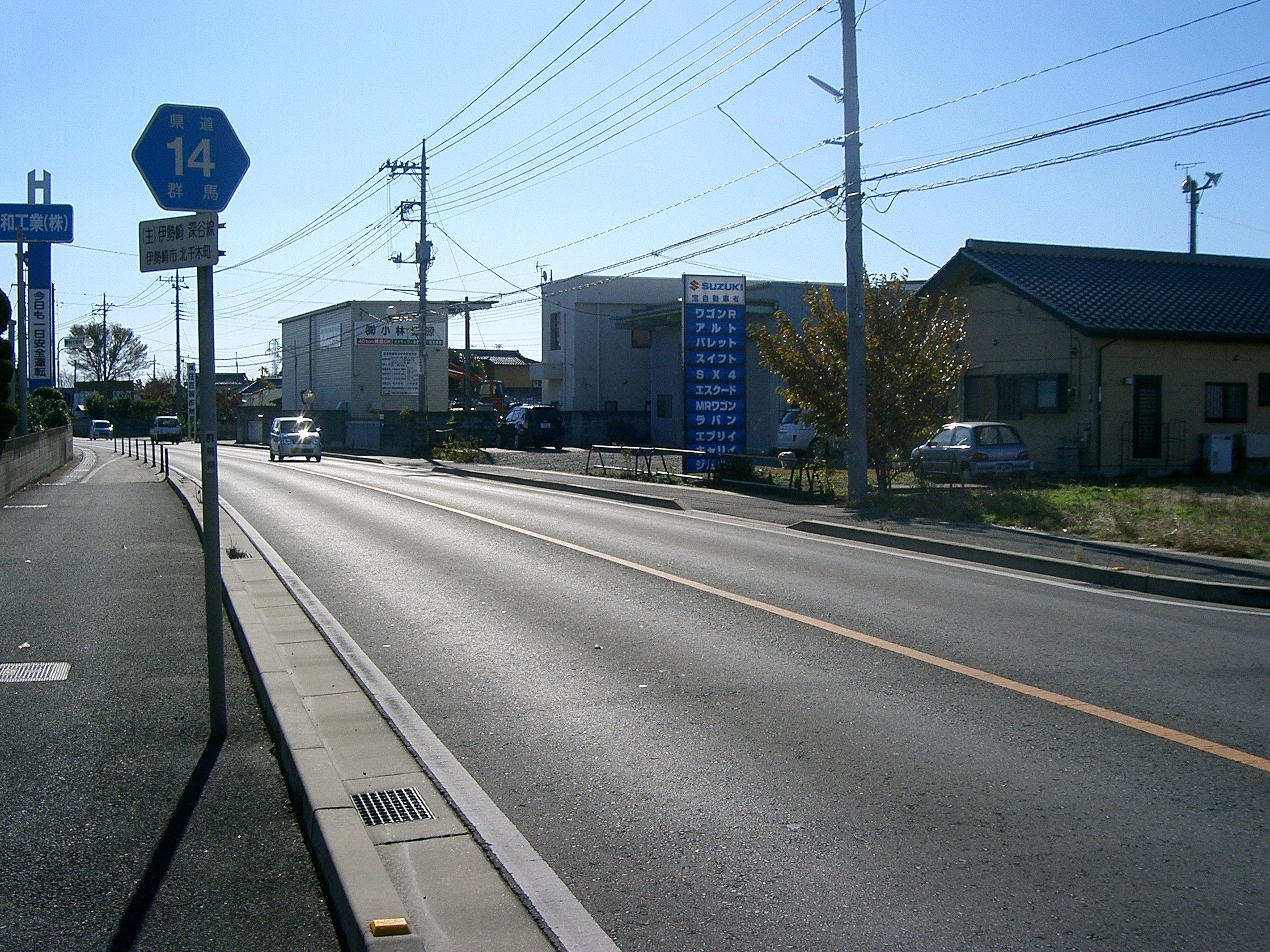 Gunma prefectural road 14 Isesaki-Fukaya line. Looking southeast from KItasengi, Isesaki city.